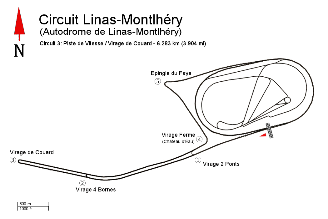 Autodrome de Linas-Montlhéry - Circuit 3